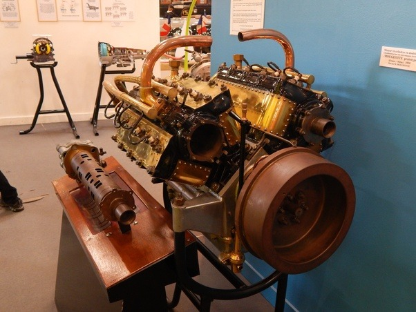 1916 rotary valve W16 engine designed by Frenchman Gaston Mougeotte being displayed at a French motor museum. The engine has a valve (it's visible on the left) but it is a long rotary valve for each bank of cylinders - Mougeotte's 1920 patent GB patent 140343 Thank you to David Chapman for the photo.